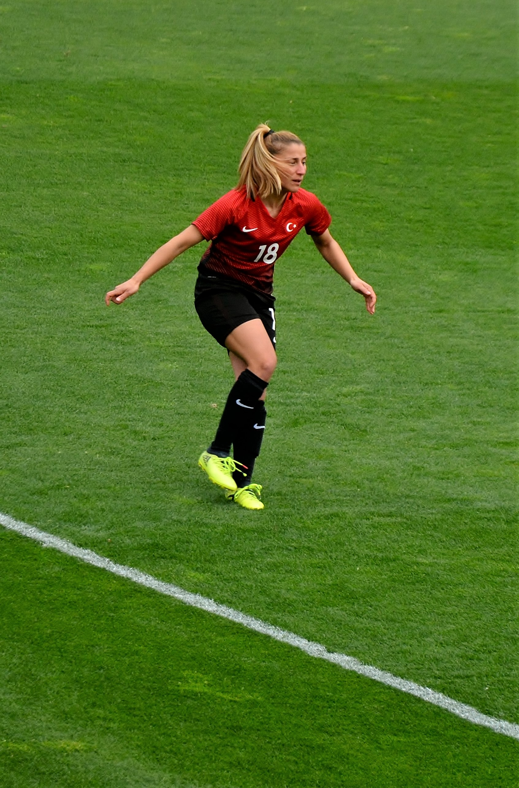 Fatma Işık playing for Turkey women's national football team in the friendly home match against Estonia at TFF Riva Facility on 7 April 2018.